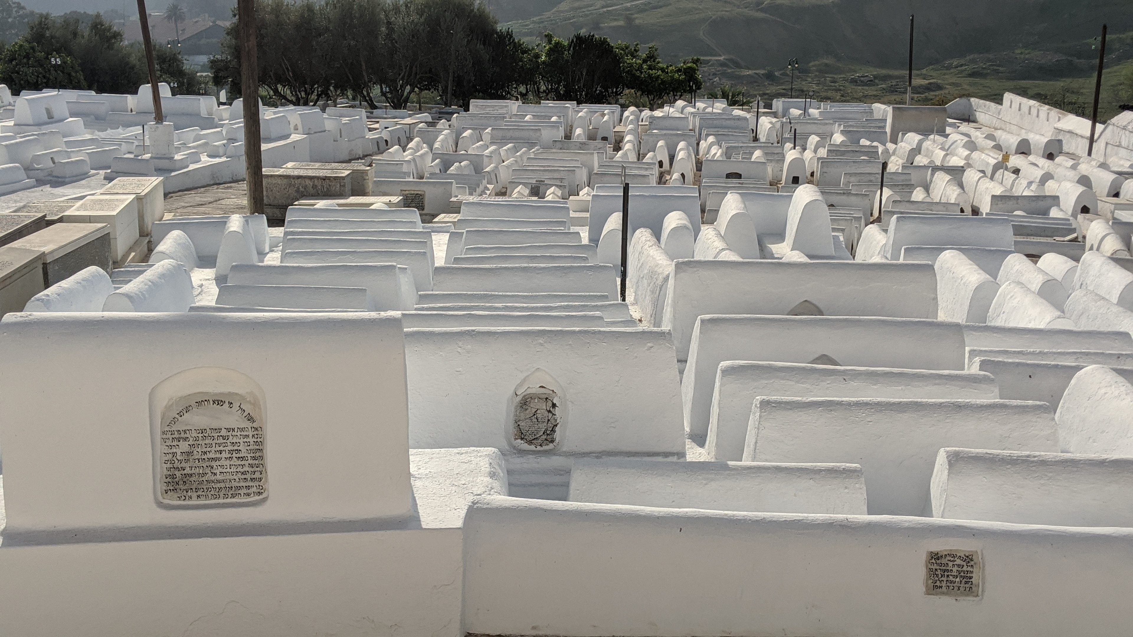 The Jewish cemetery in Fes, Morocco